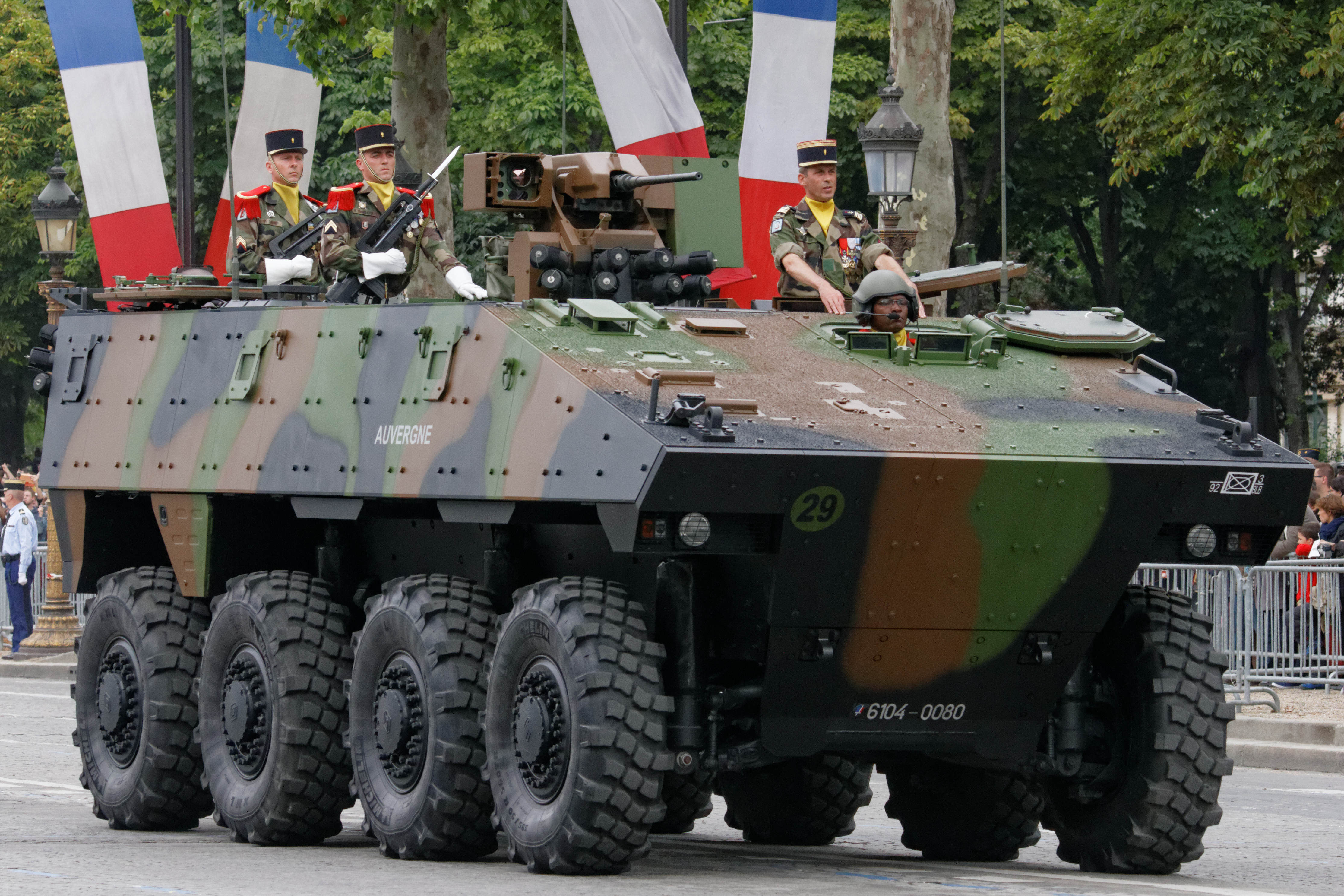 Bastille Day 2014 military parade on the Champs-Élysées in Paris. Motorised troops.